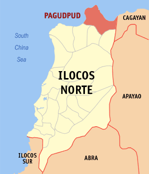 Map of Ilocos Norte showing the location of Pagudpud